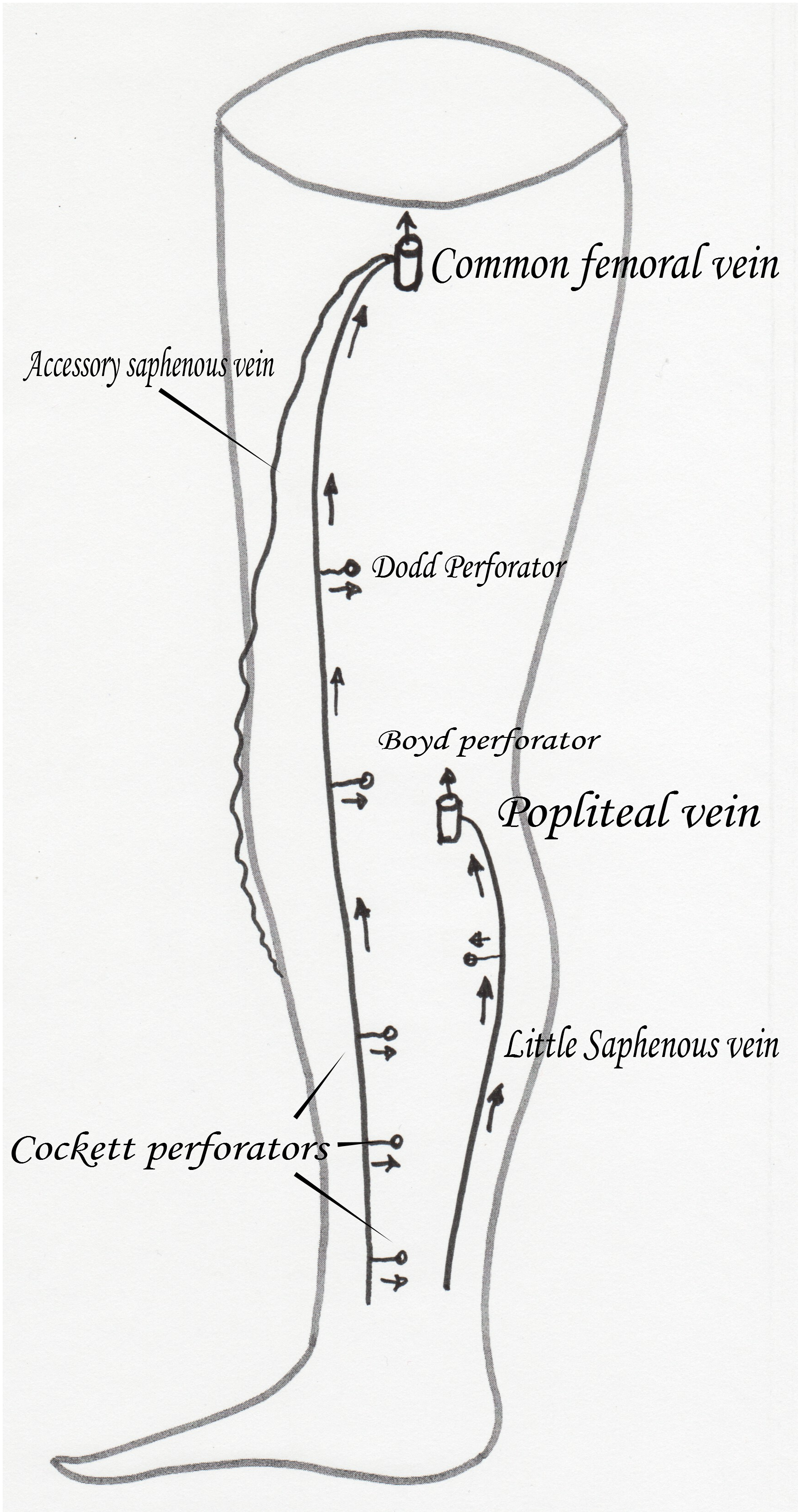 Inferior limb superficial veins schema